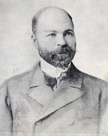 Georgios Iakovidis (1853-1932): Greek painter